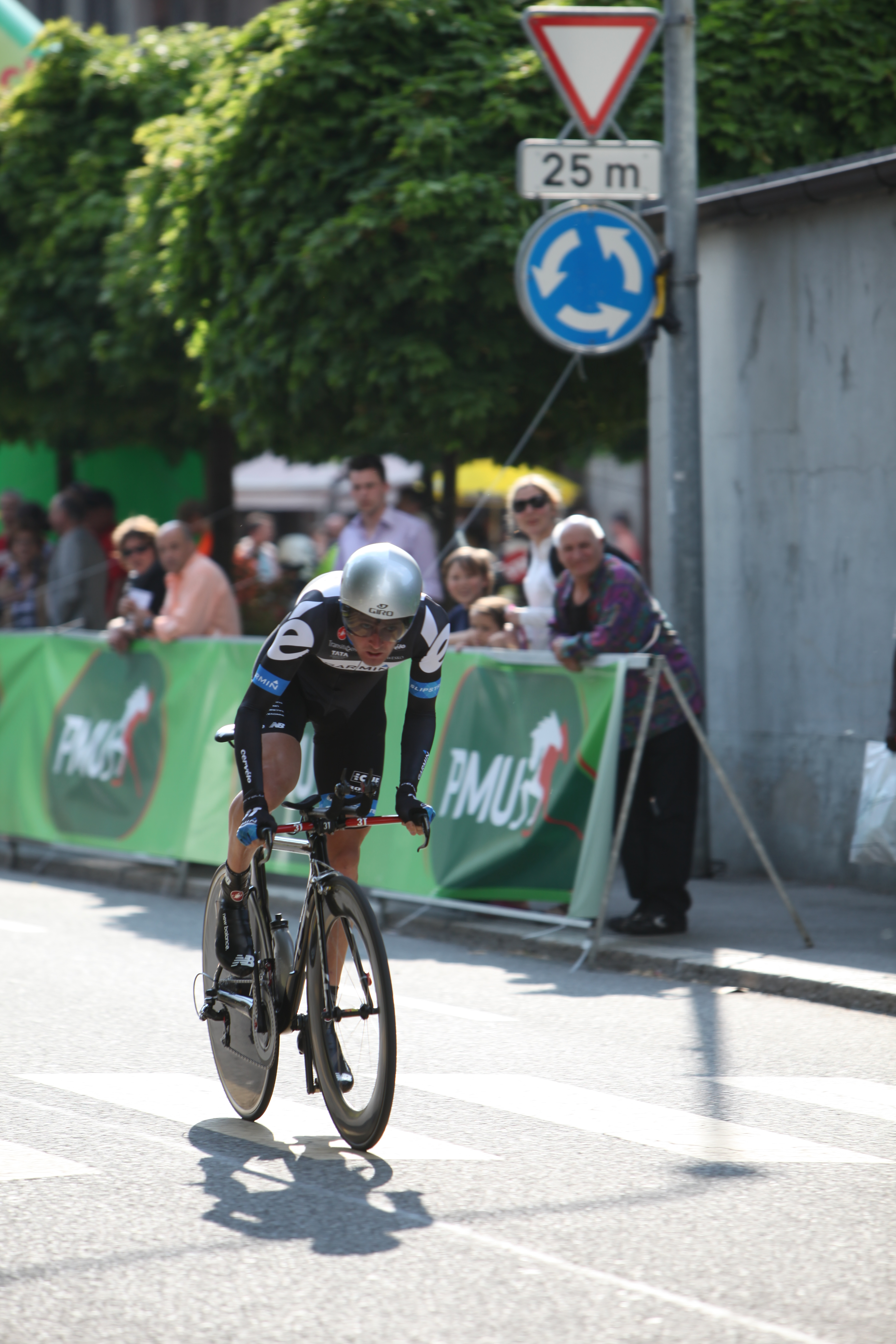 Peter Stetina at the prologue of the Tour de Romandie 2011